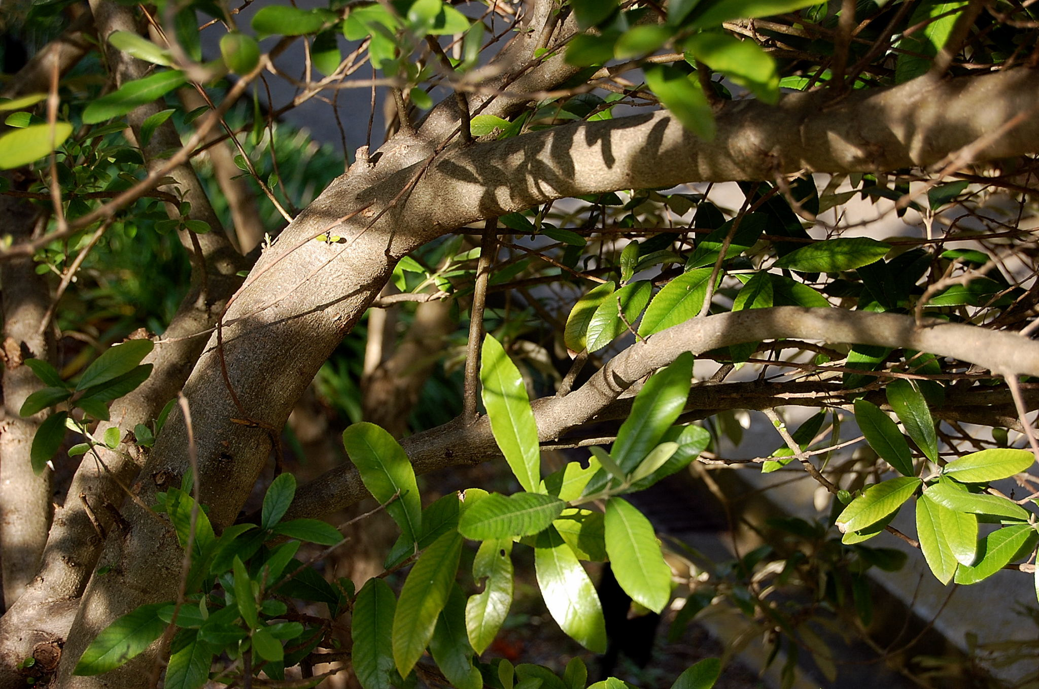 Tronc